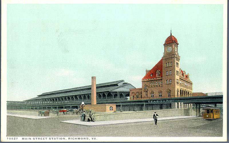 Description: No published or copyright date listed on postcard. Manufacturer: Detroit Publishing Co. Date Postmarked: Not postmarked. Rights: This item is in the public domain. Acknowledgement of the Virginia Commonwealth University Libraries as a source is requested. Reference URL: Collection